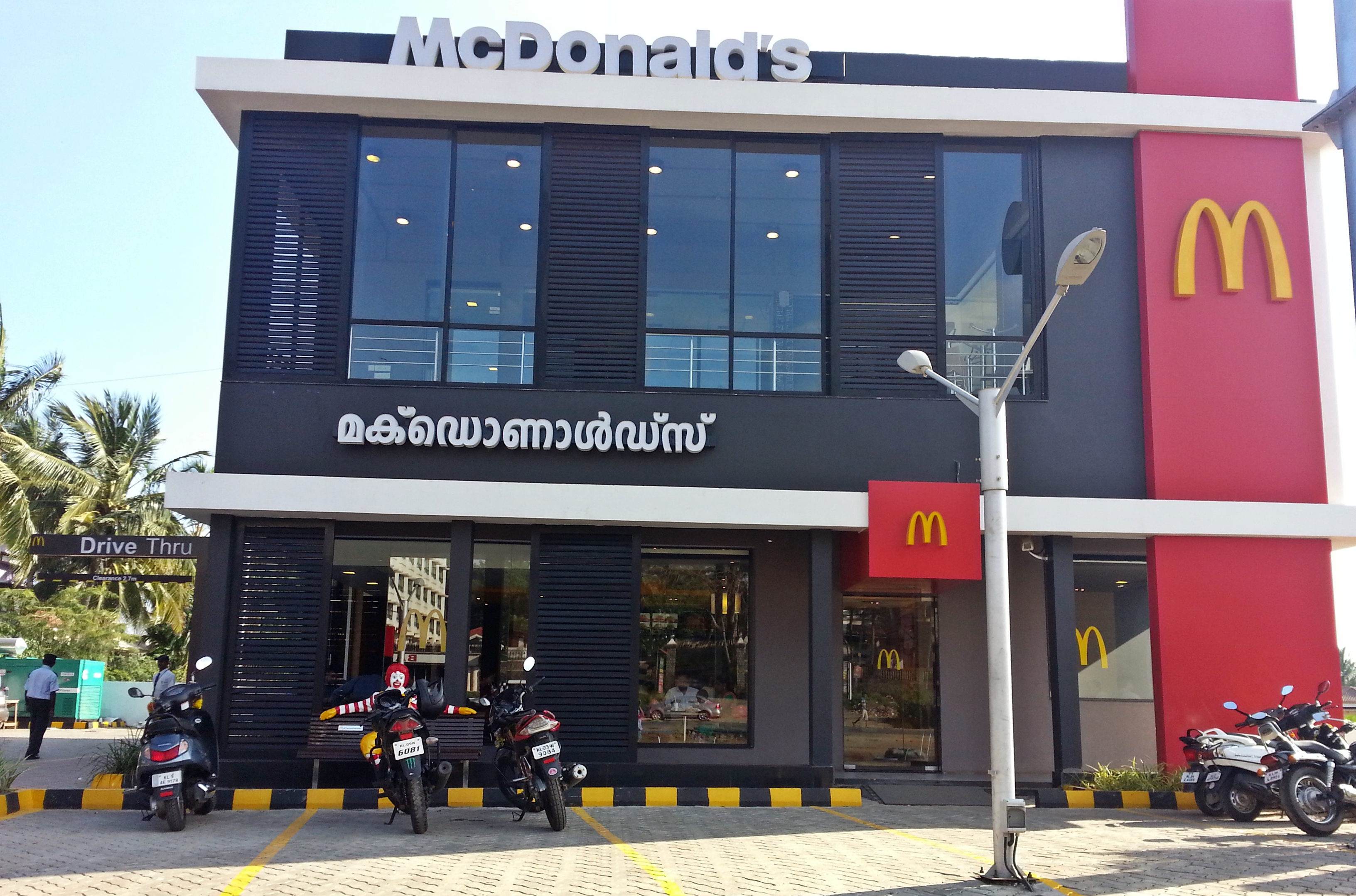 McDonald Malayalam -Kerala